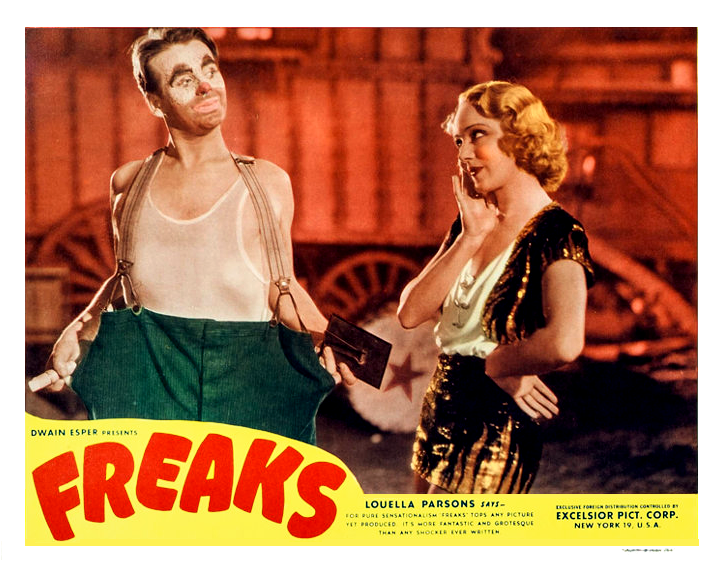 Colored lobby card for the 1932 MGM horror movie, Freaks. Image is assumed to be in the public domain as no copyright is in evidence. PNG version of this image.